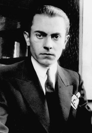 Giovanni Bassanesi